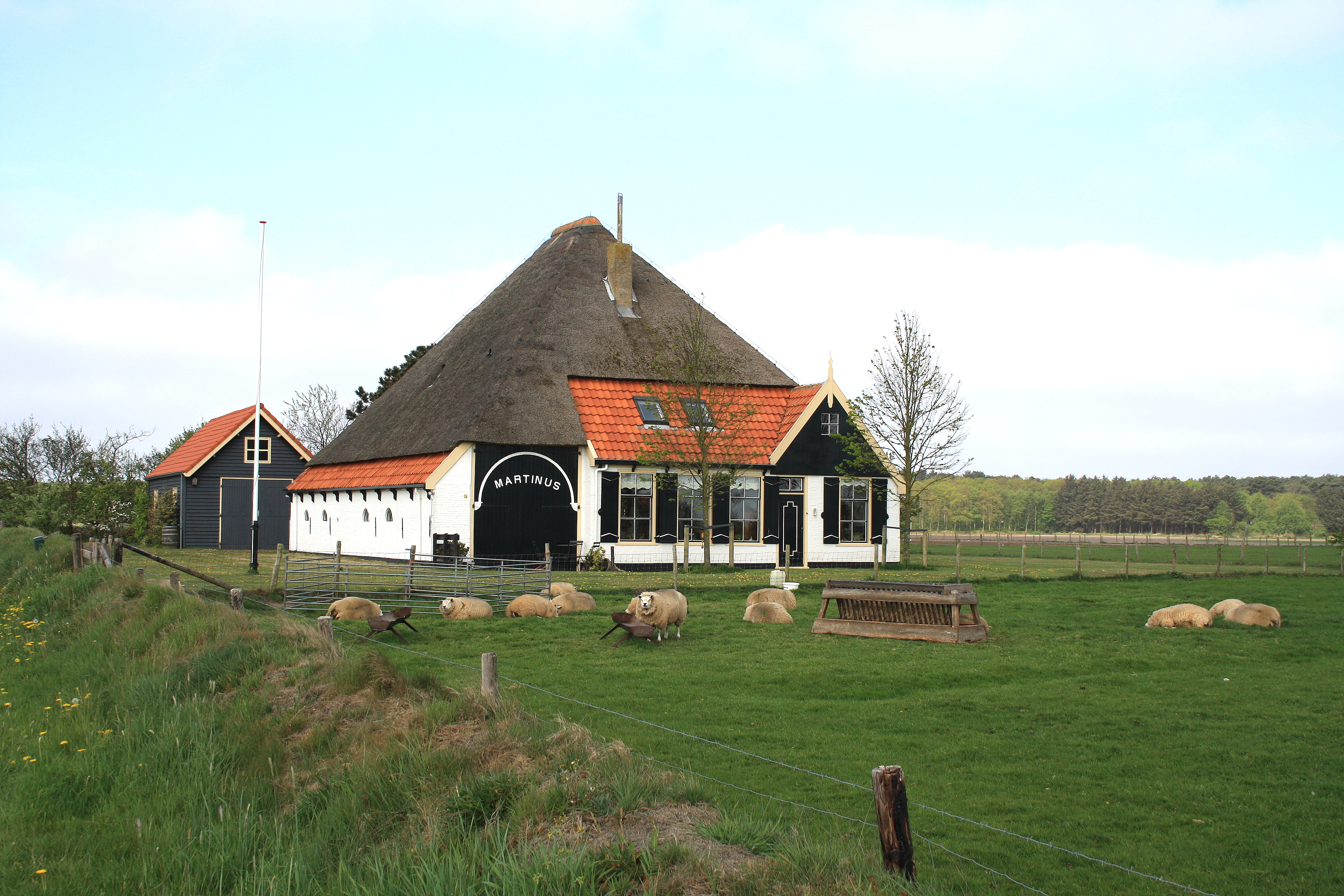 Farmhouse Martinus on the island Texel - build in 1885 - Martinus was the son of the owner